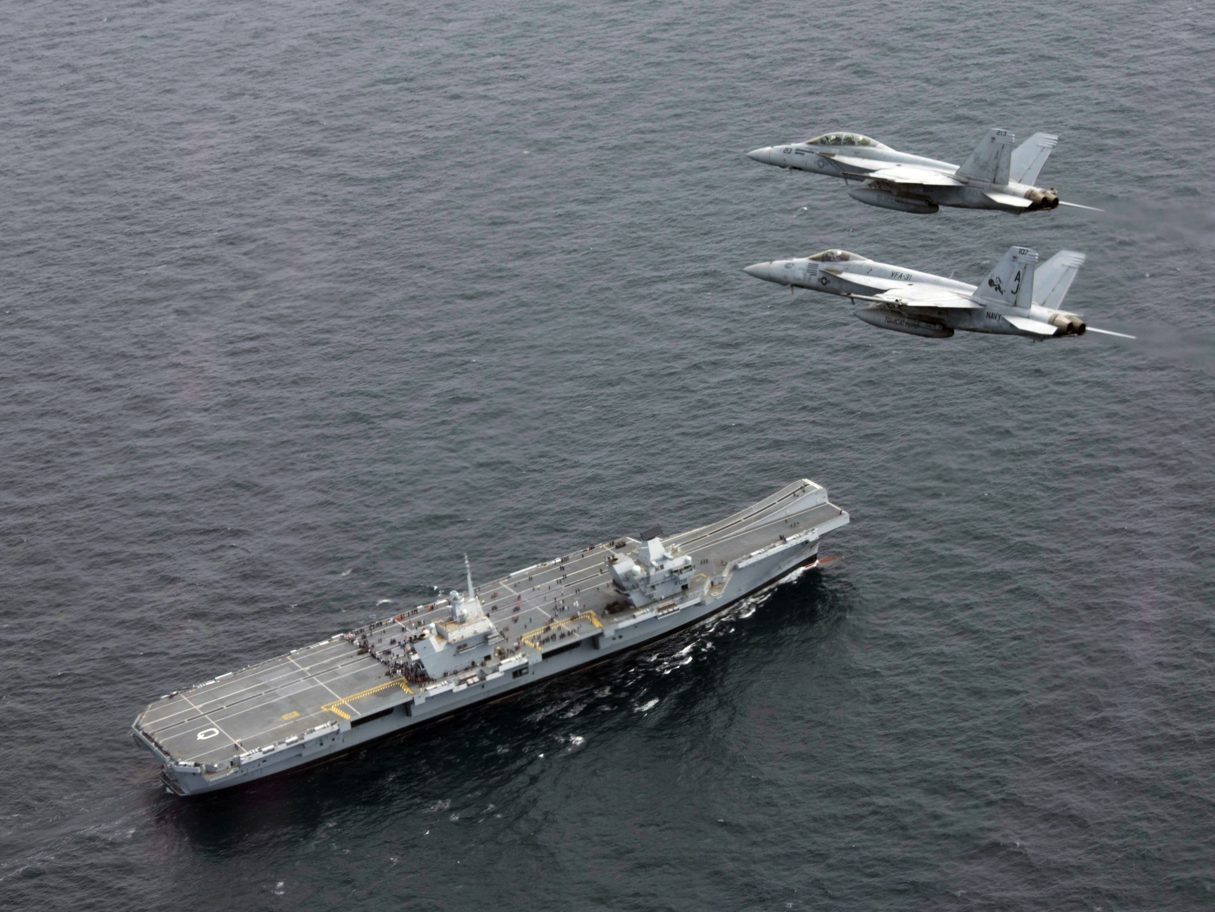 A U.S. Navy Boeing F/A-18E Super Hornet from Strike Fighter Squadron 31 (VFA-31) "Tomcatters", bottom, and a F/A-18F of VFA-213 "Black Lions" fly in formation above the Royal Navy aircraft carrier HMS Queen Elizabeth (R08) during exercise "Saxon Warrior 2017".